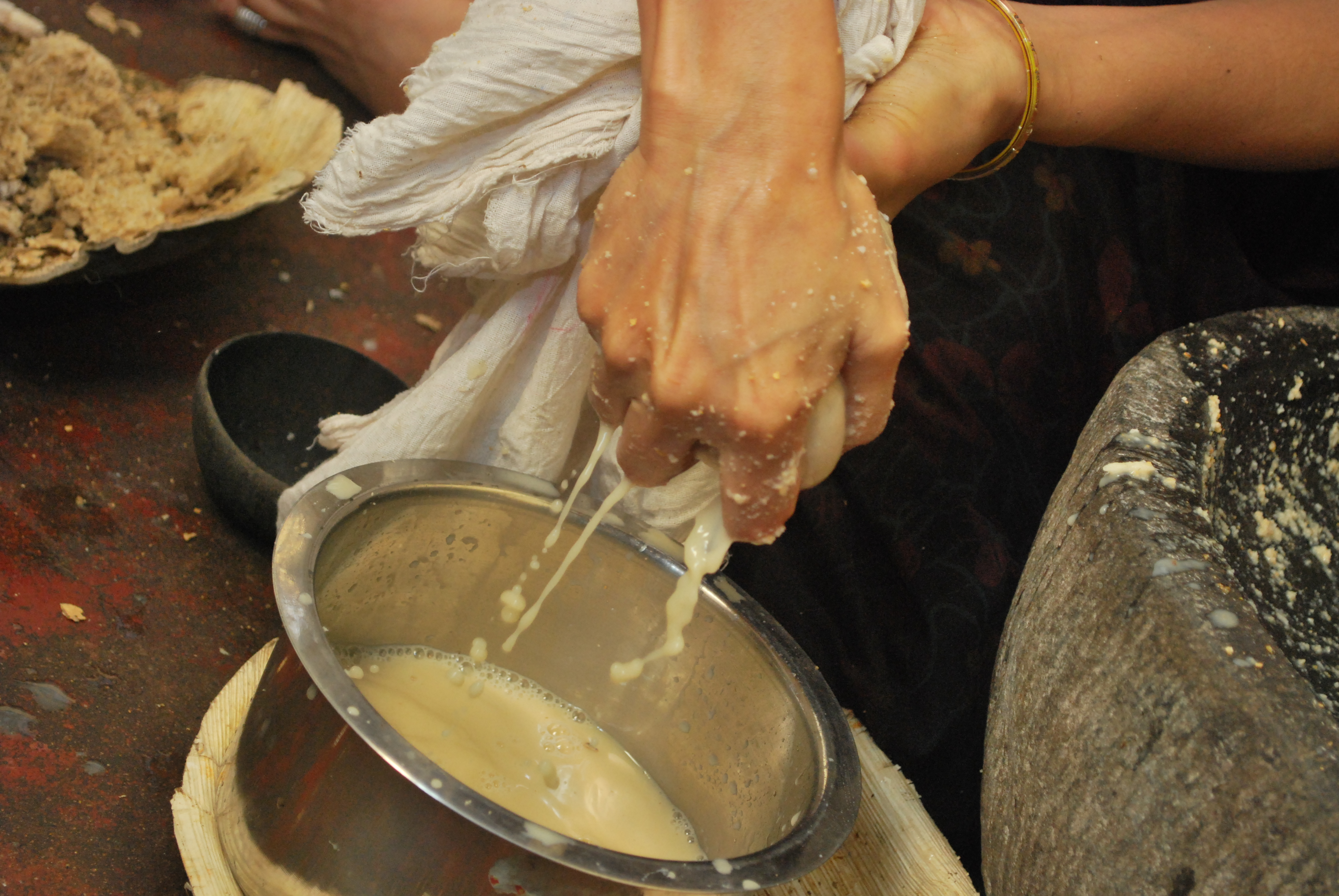 Medicinal plant Hale tree